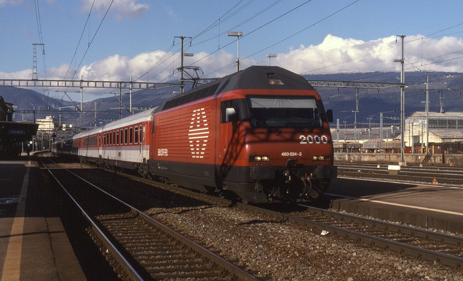 SBB 460.024 "Rheintal" at Yverdon on 11 November 1998. Stock is DB InterCity stock, the train being a EuroCity service between Germany and Genève.